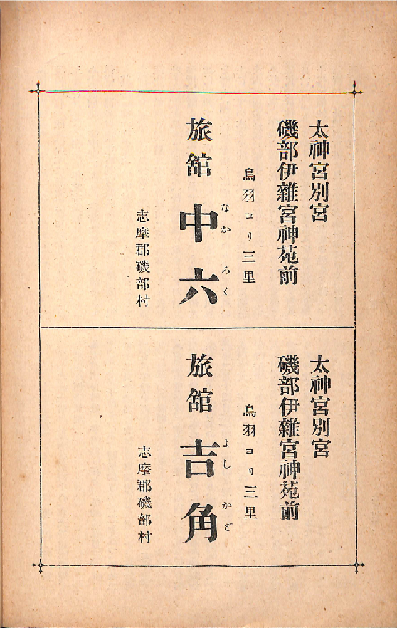 This is an advertisement of Japanese style hotel "Nakaroku" and "Yoshikado", which was located in Shima, Mie, Japan.